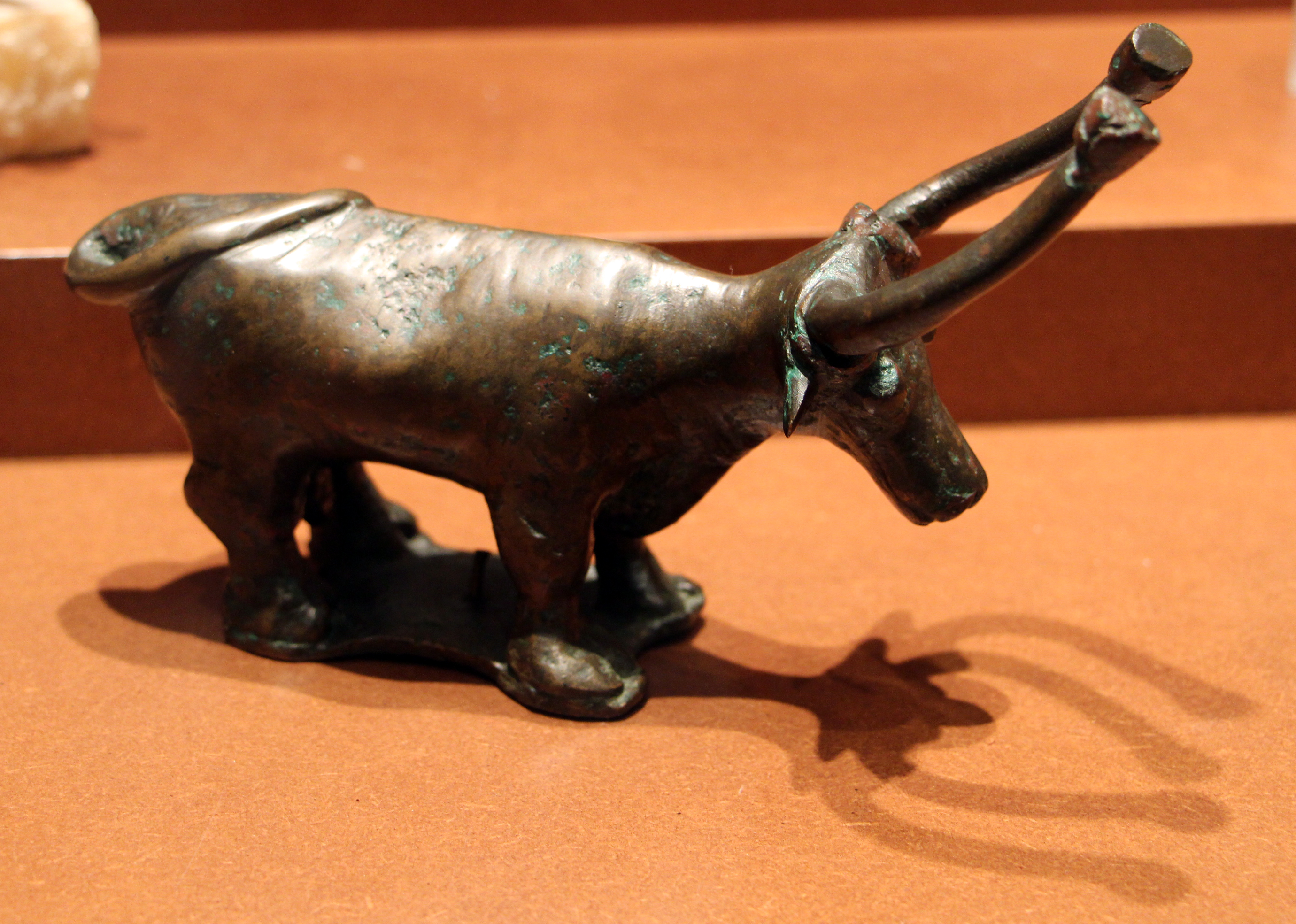 Ichnussa (2014 exhibition)